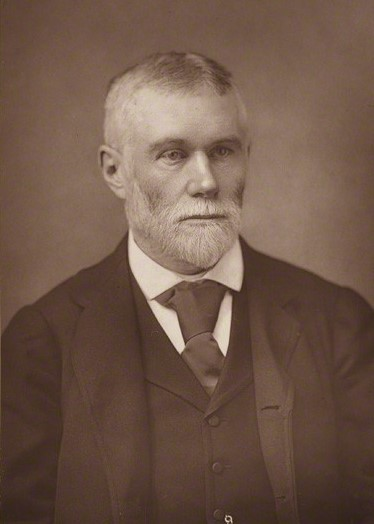 Sir George Trevelyan, 2nd Baronet